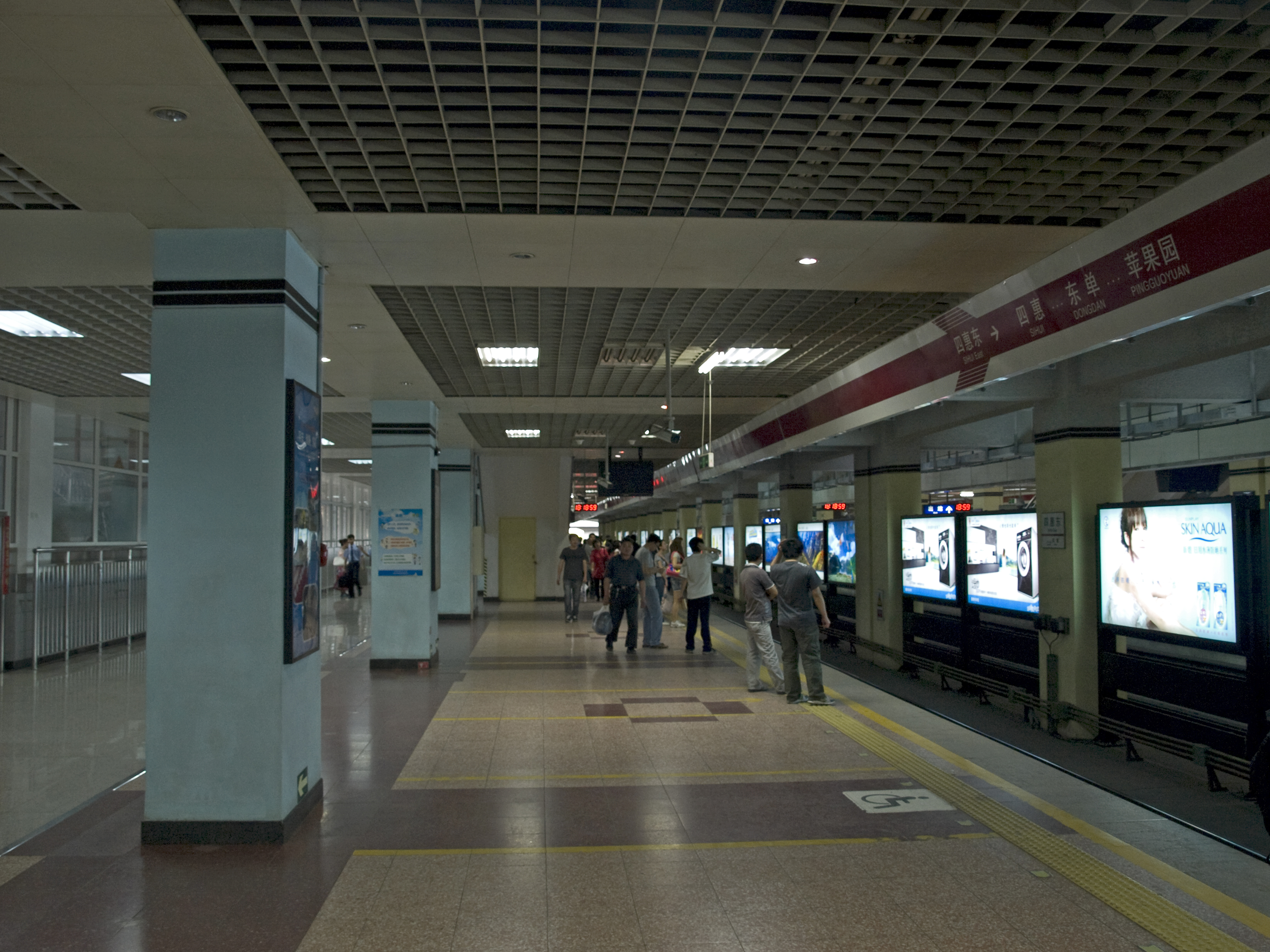 Sihui East station (Line 1), Beijing Subway